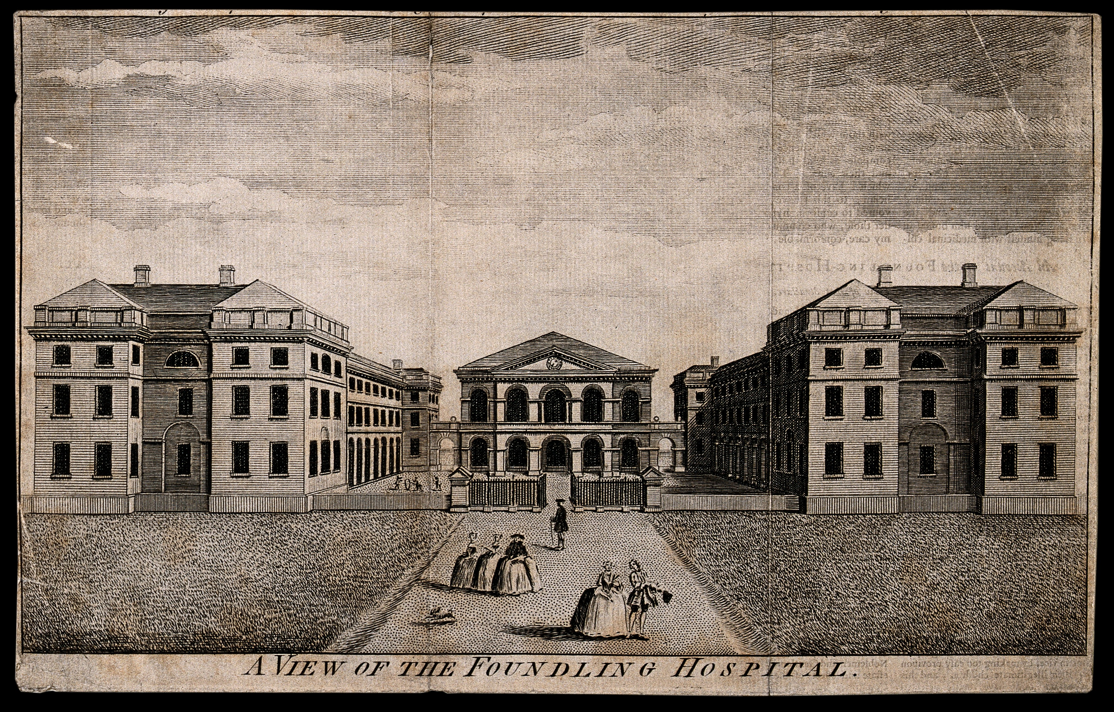 The Foundling Hospital, Holborn, London: the main buildings with several figures. Engraving, [1751]. Iconographic Collections Keywords: Theodore Jacobsen; Foundling Hospital (London)